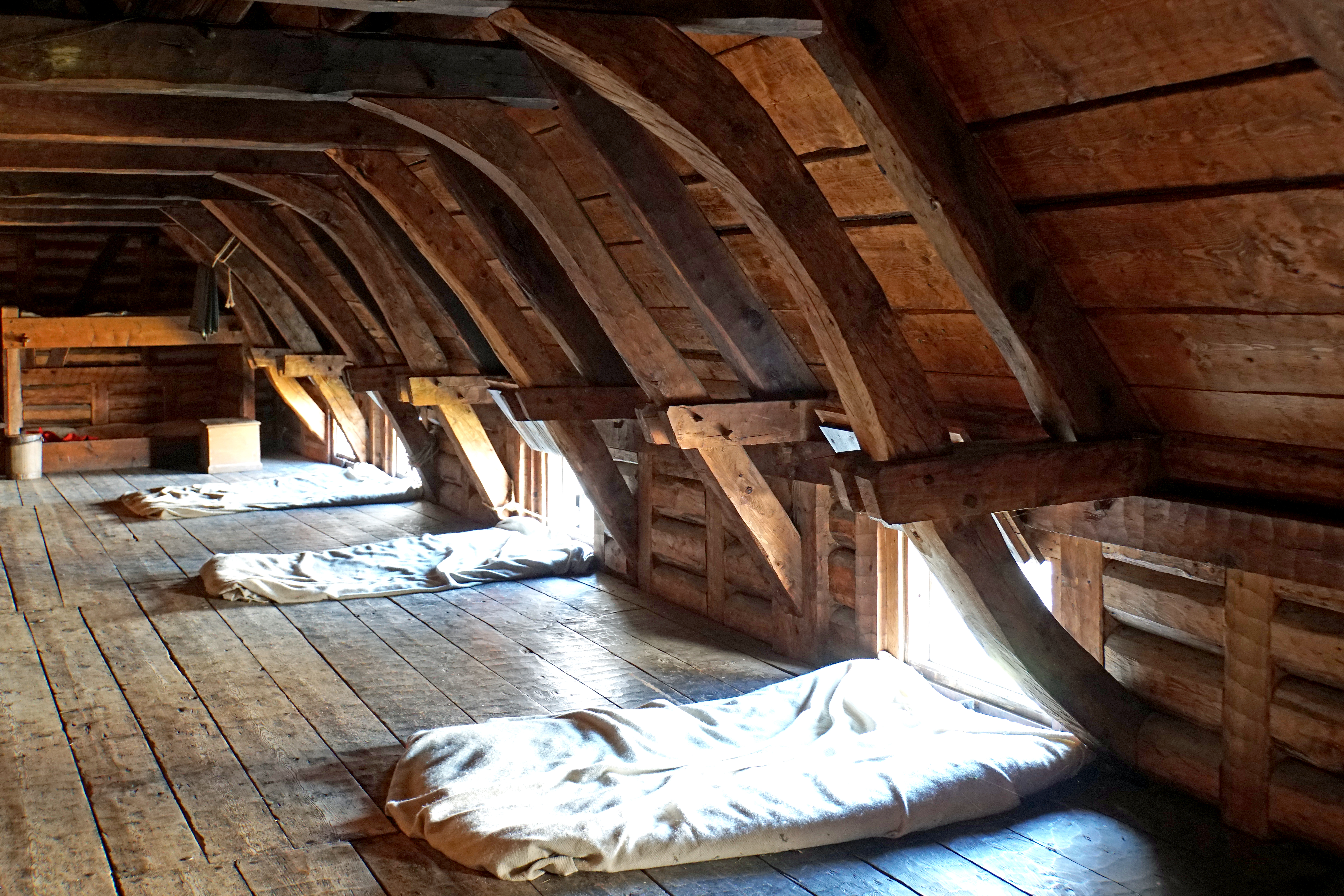 PLEASE, NO invitations or self promotions, THEY WILL BE DELETED. My photos are FREE to use, just give me credit and it would be nice if you let me know, thanks. The upper dormitory is where the artisans slept in bunks or on coarse straw mattresses. Lying on a mattress they could enjoy a view of the courtyard. In winter, heat came from the chimneys and sick men were placed in the small enclosed beds(sick bays) built against them, where they would be warmer. The sturdy timber construction of the Habitation is visible here; look closely at the cared "ship's knees" that support the roofing framework which is mortised, tenoned and pegged throughout.